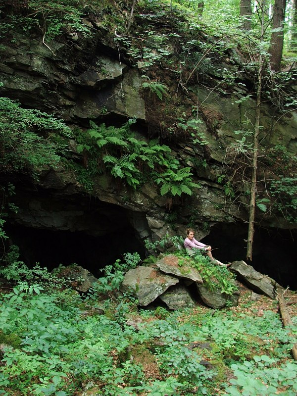 Excavation of old quarry near by Jaskinia Kontaktowa (municipality Stronie Śląskie, East Sudetes, Poland)